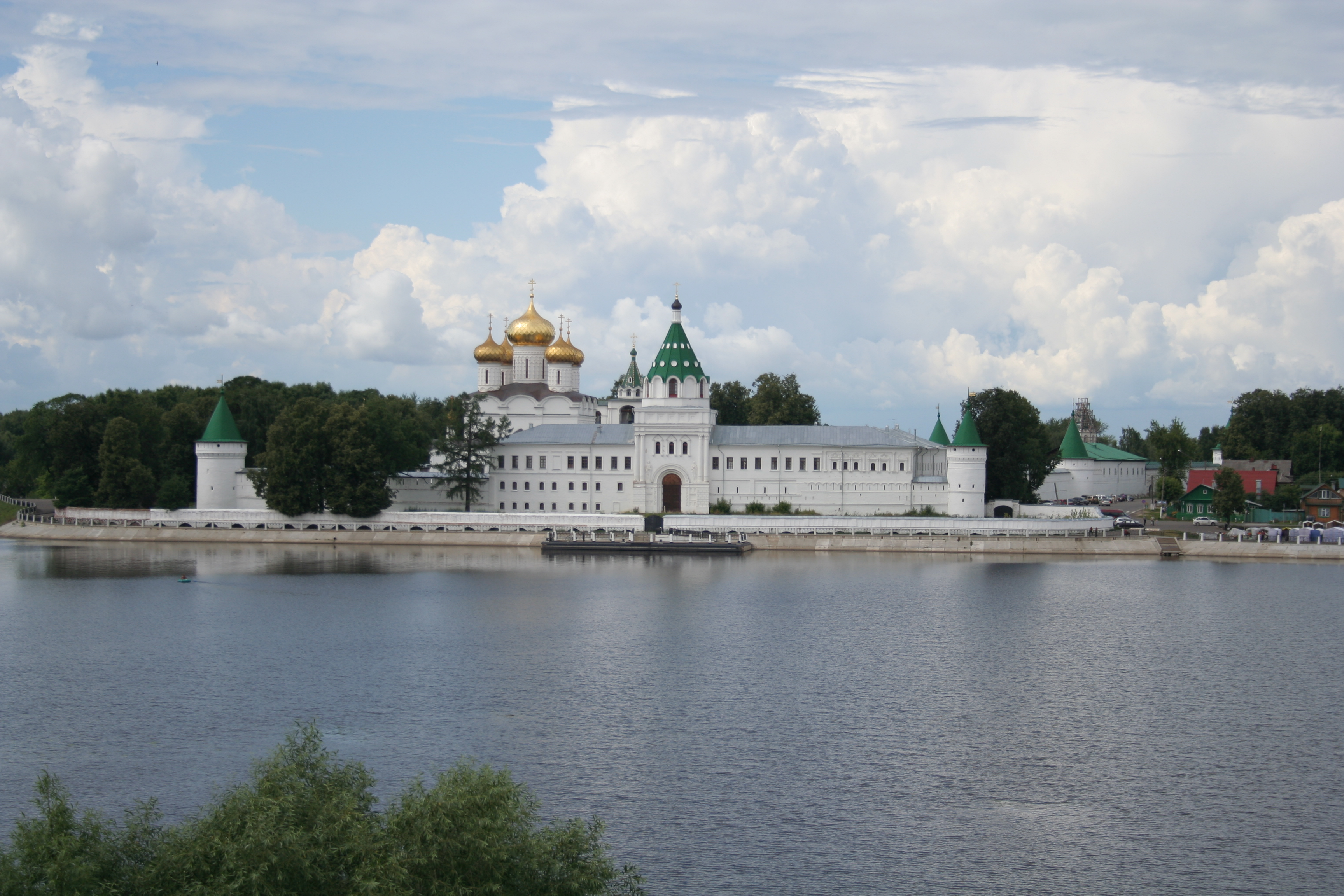 View on the Ipatiev Monastery in Kostroma, Russia